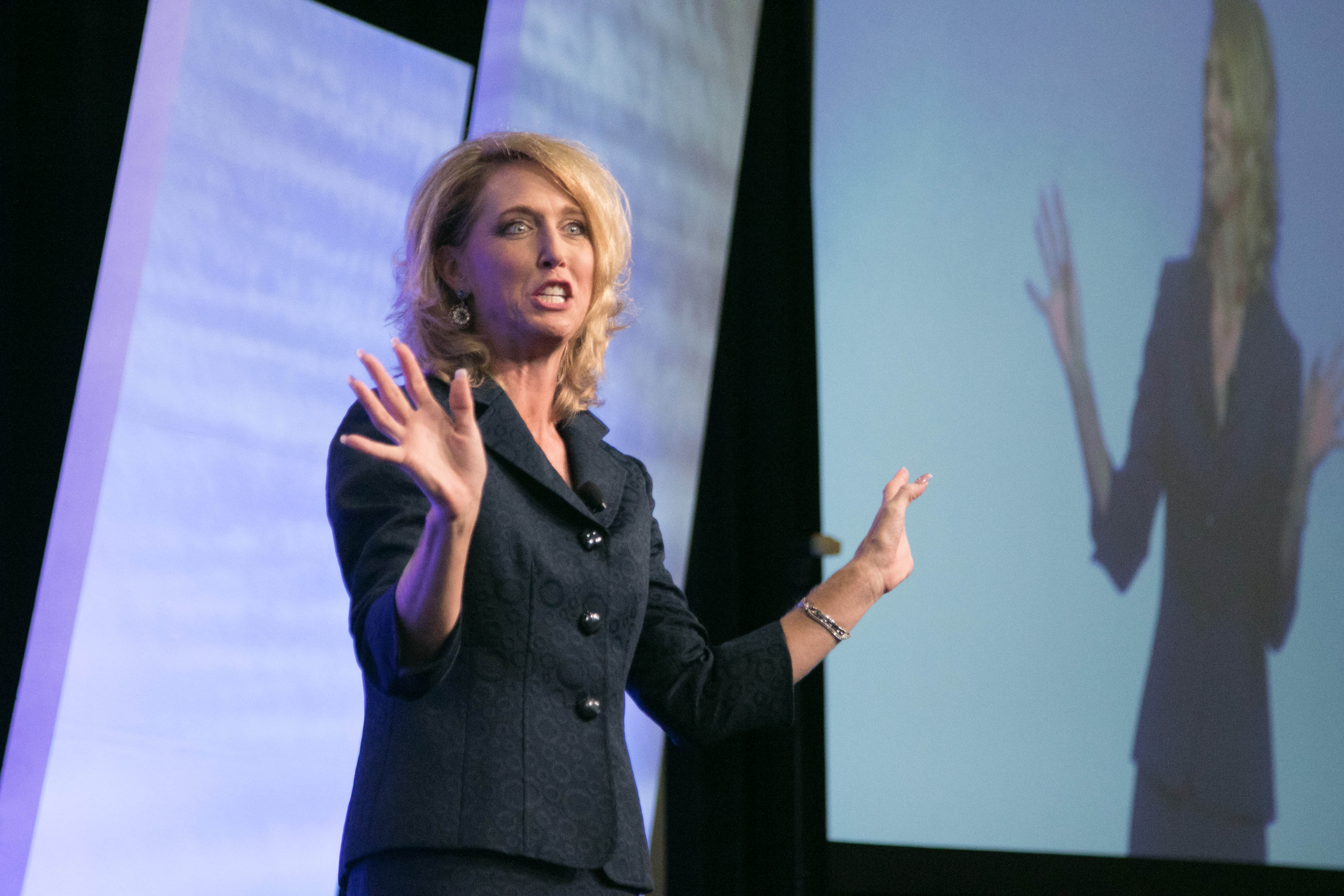 Monica Wofford speaking to audience.